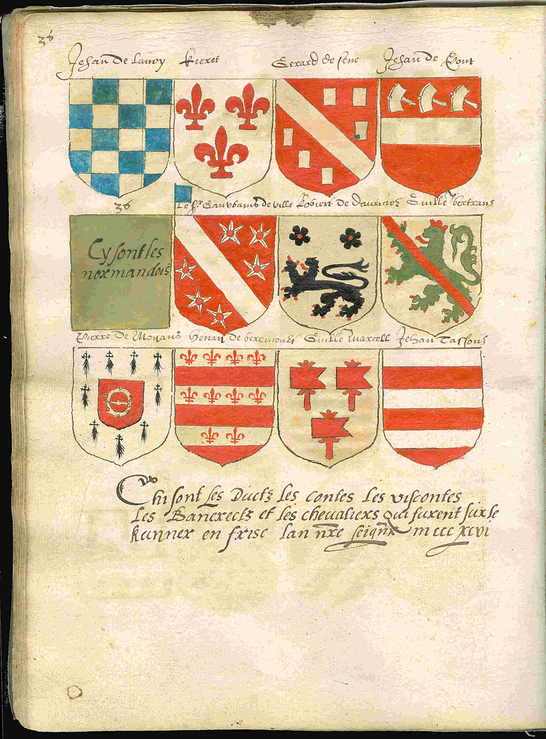 Page 36 from a copy of the Beyeren armorial / Wapenboek Beyeren from ca. 1600. The original Beyeren armorial from 1405 can be viewed at the website of the KB